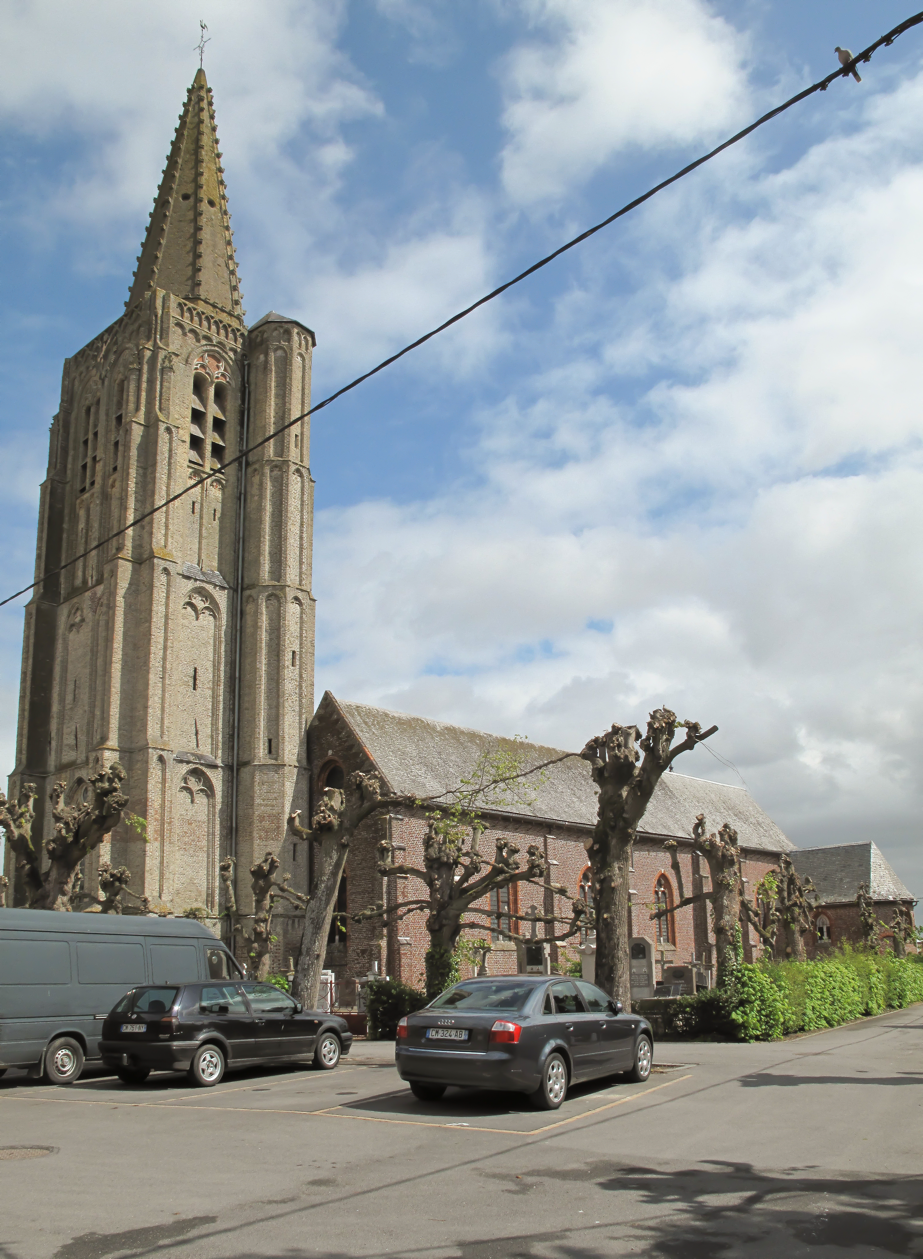 Houtkerque, church: l'église Saint-Antoine